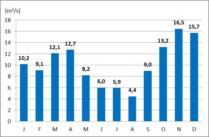 Average monthly discharges of Poljanska Sora River at the gauging station Zminec in 1991–2010